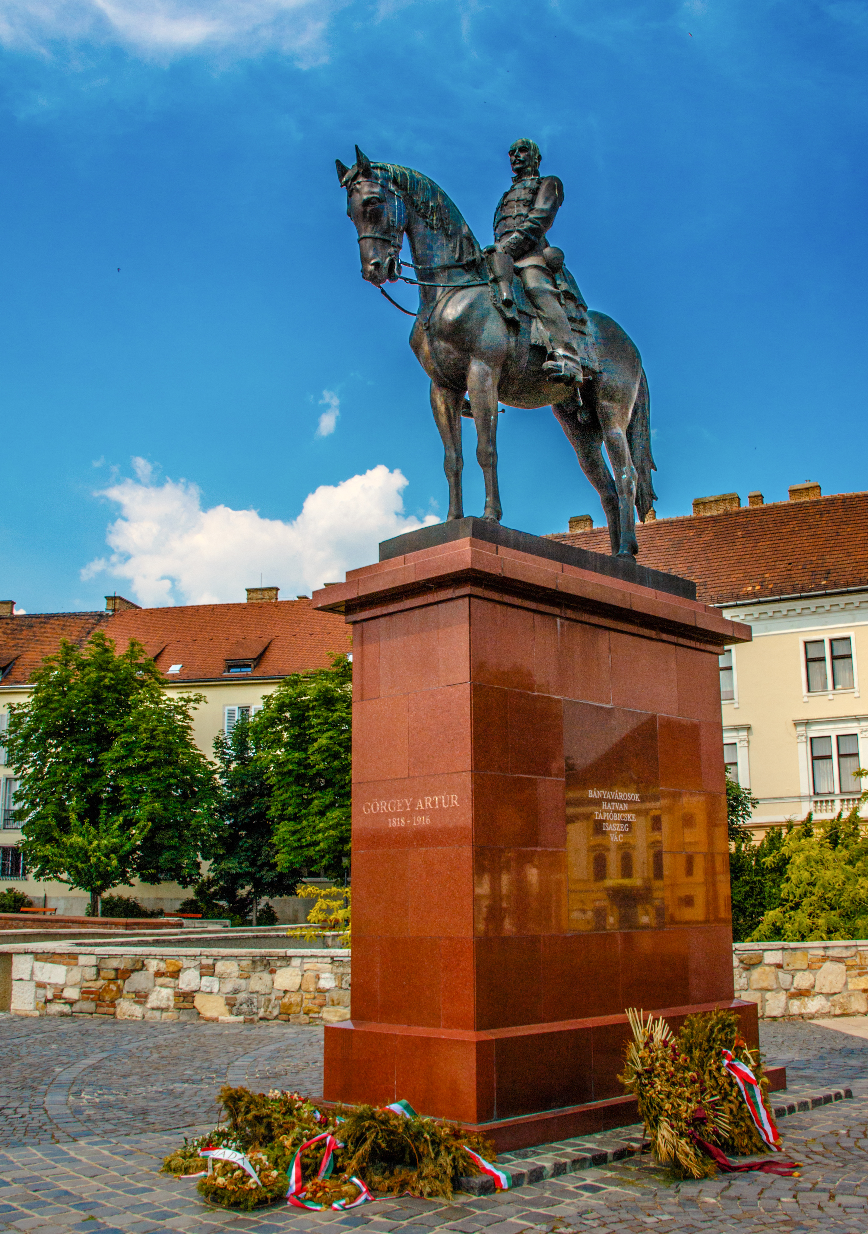 Artúr Görgei monument in Budapest